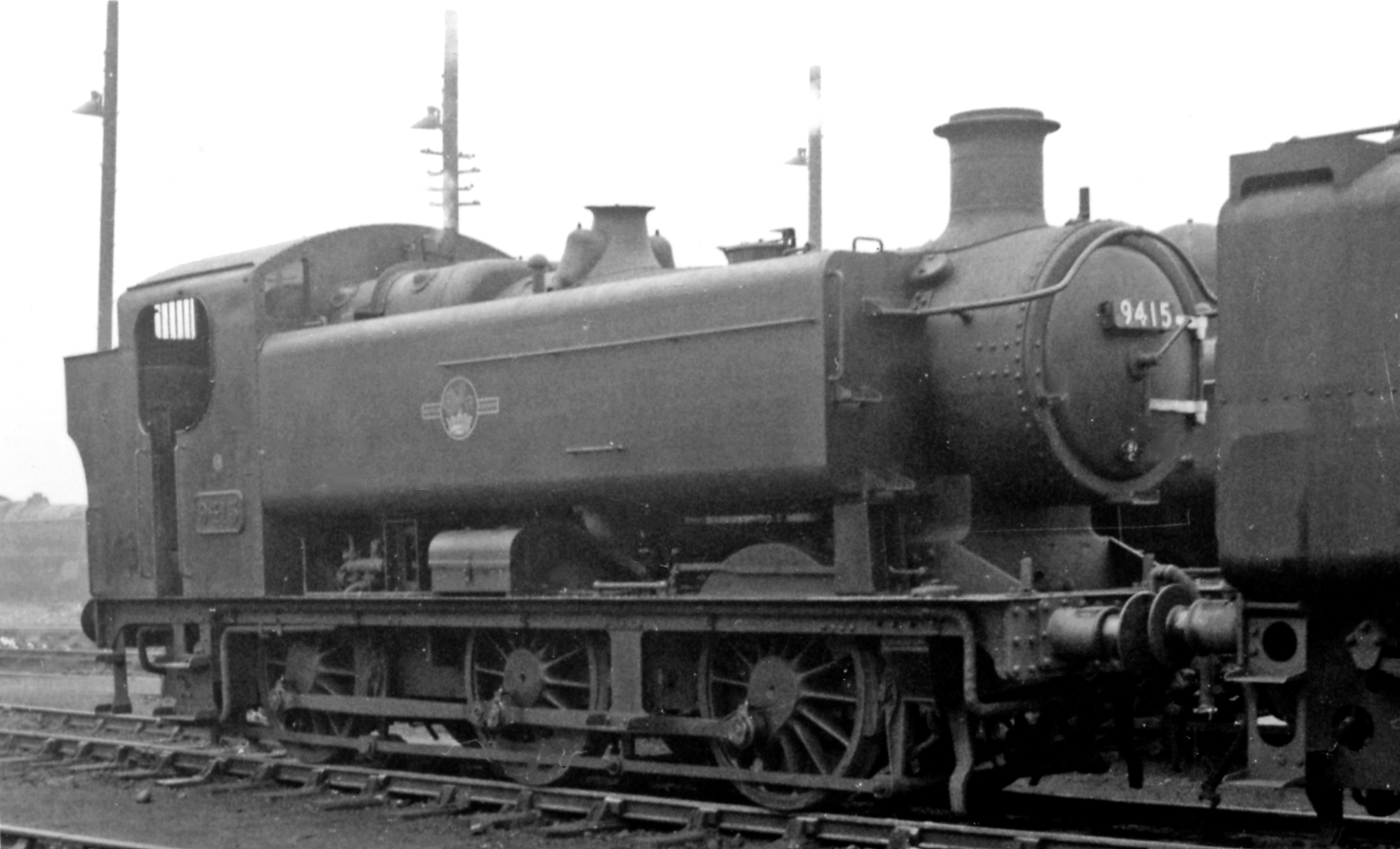 Ex-GW Hawksworth '9400' 0-6-0PT at Southall Locomotive Depot. One of the Hawksworth post-war larger 0-6-0PTs employed all over the WR, but for only 15 years or so, No. 9415 was built 5/50 and withdrawn 6/65.